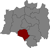 Location of Camós in Pla de l'Estany